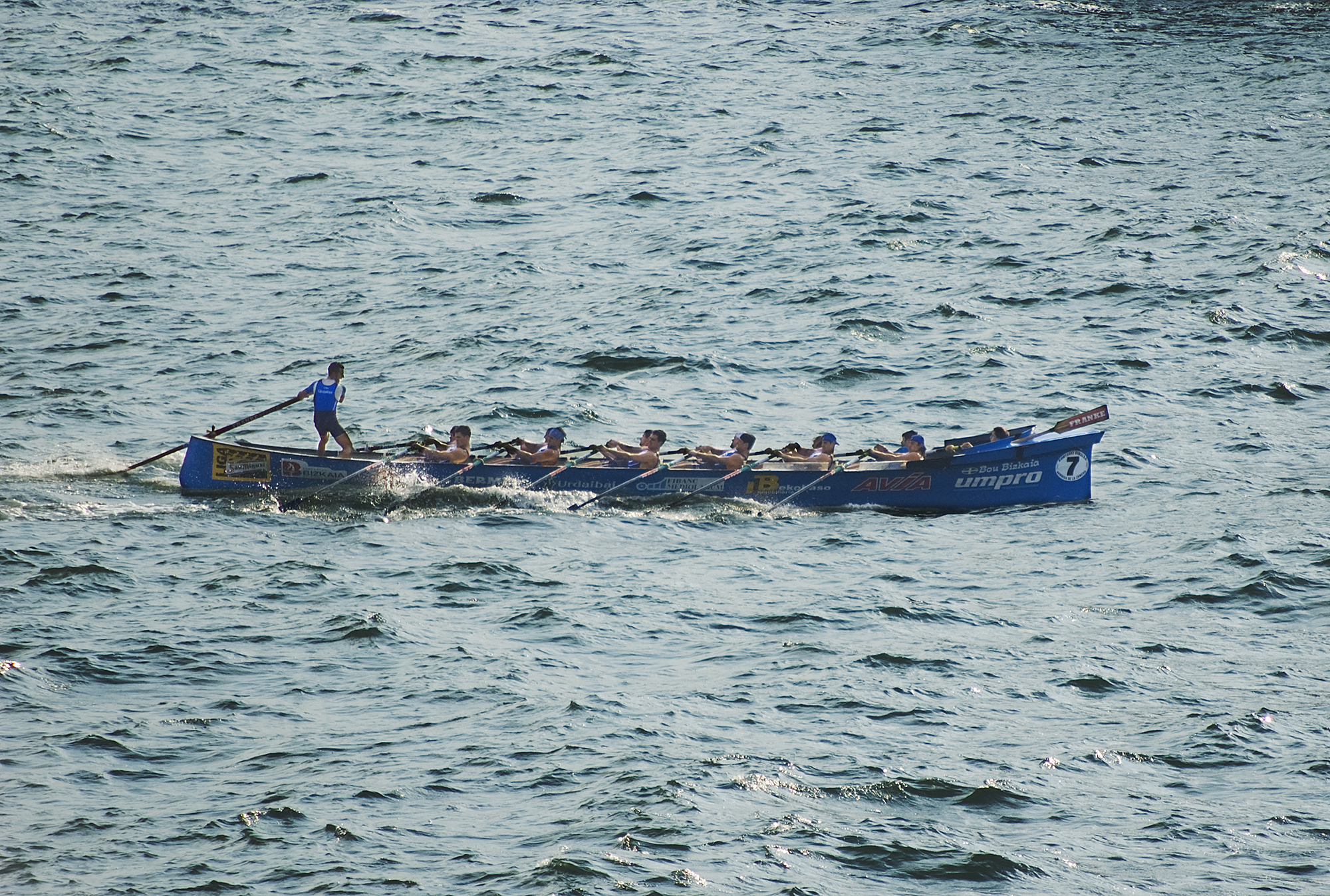 Classification run for the Flag of La Concha competition. The seven best times classificated for the race held on the first two weekends of September 2007. This team is Urdaibai, which with a time of 20'58.36" did 2nd.